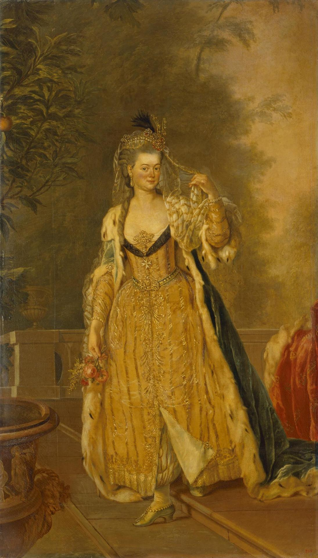 Princess and Margravine Anna Elisabeth Louise of Brandenburg-Schwedt